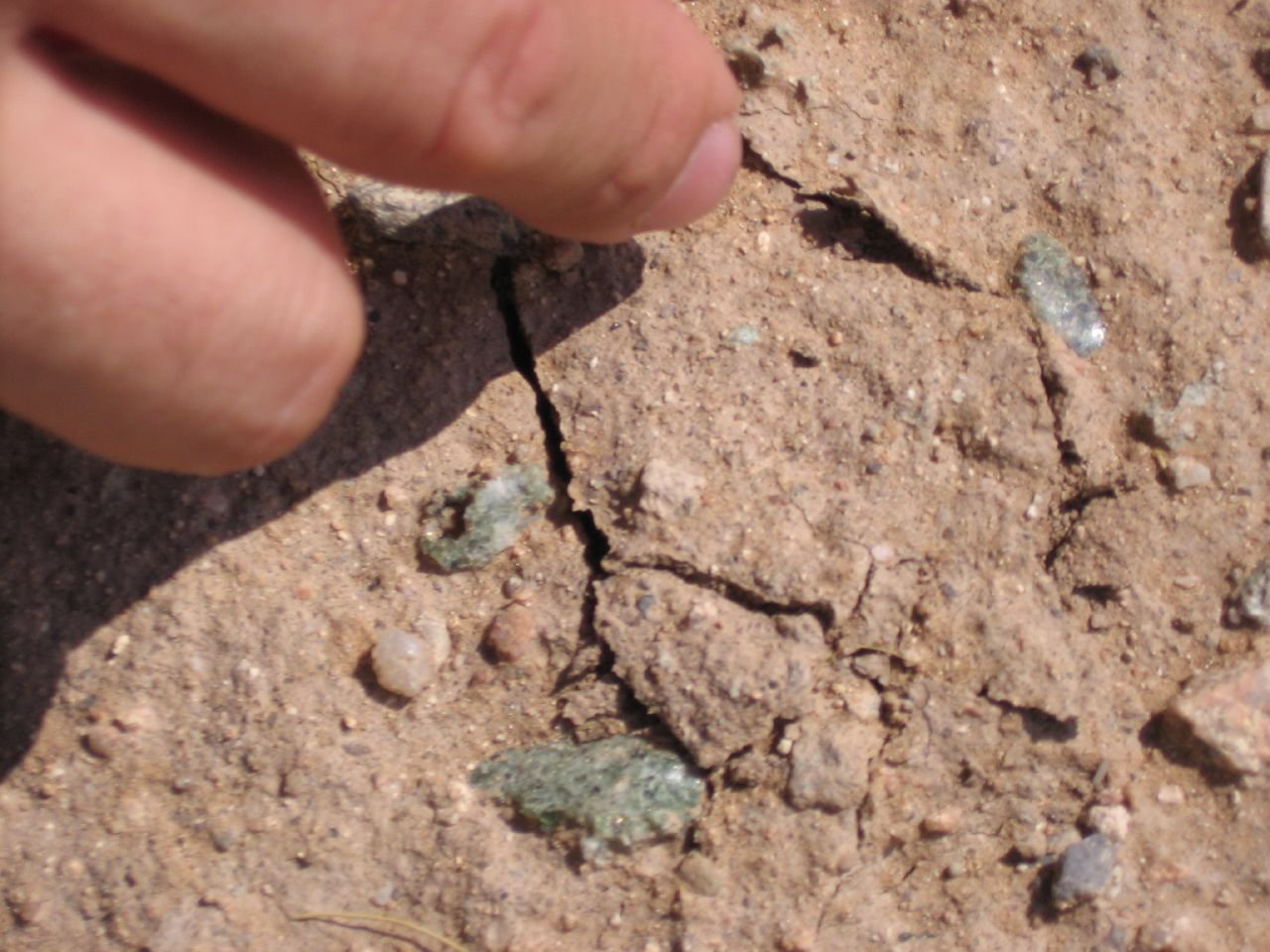 Trinitite on the Trinity test site